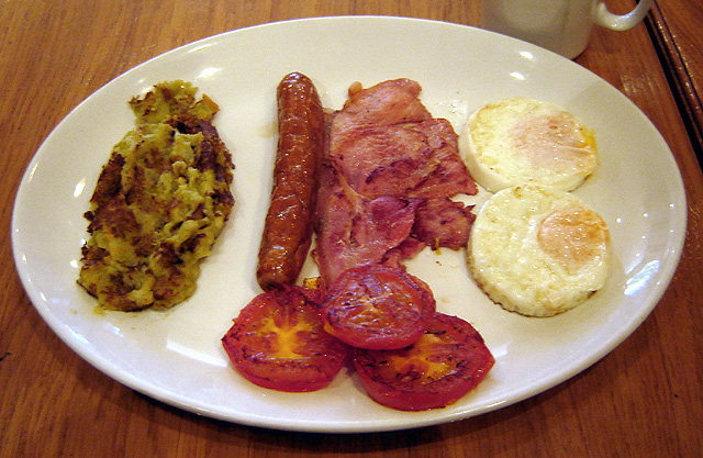 Two eggs, bacon, sausage, tomato and bubble. Joseph's Café, Stoke Newington High Street, Hackney, London. 1 November 2005. Photographer: Fin Fahey.